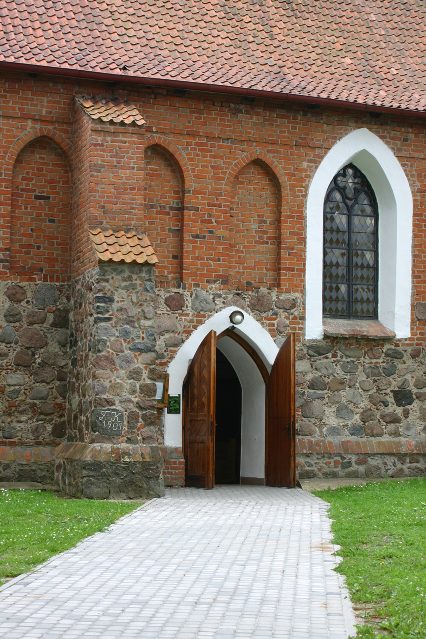 Winda - OpenStreetMap(Info)